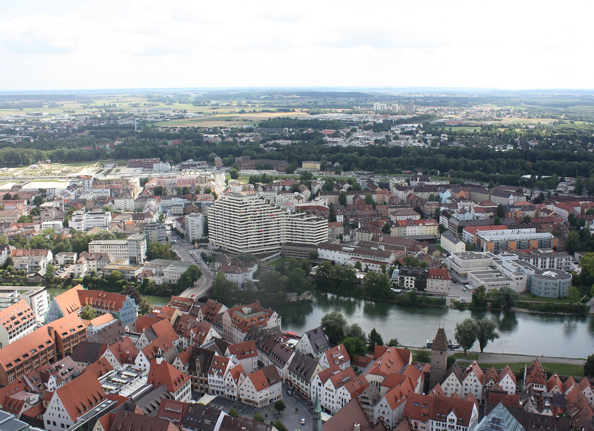 Ulm, view from the Minster to Neu-Ulm